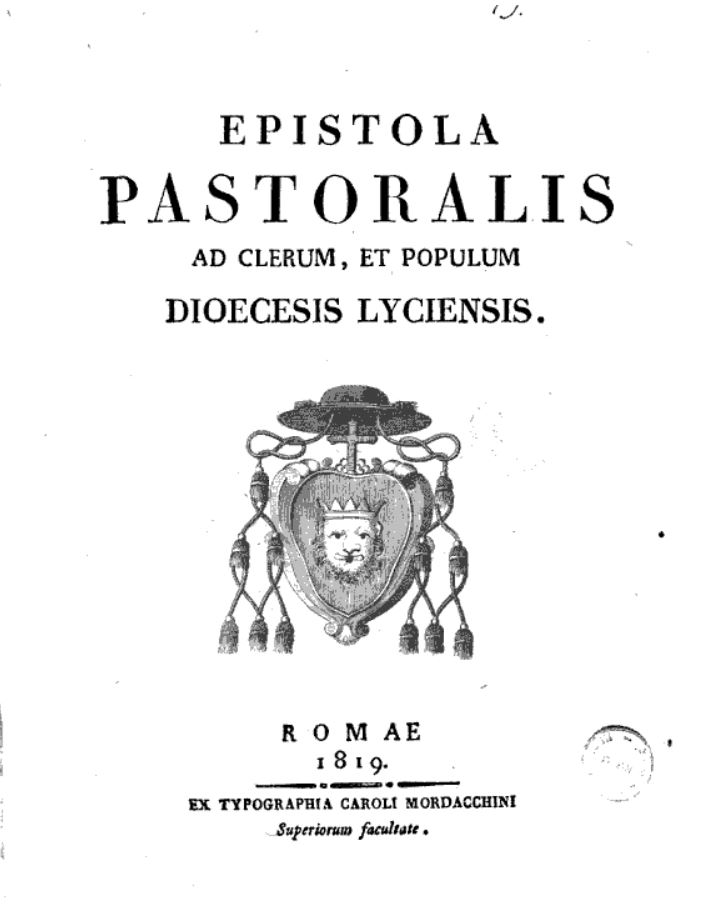 Nicola Caputi vescovo di Lecce Epistola Pastaralis